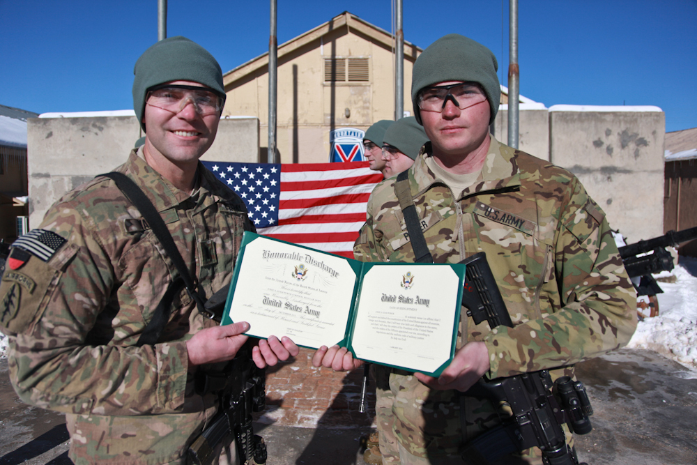 U.S. Army Cpl. Joshua Power, right, assigned to Bravo Troop, 3rd Squadron, 71st Cavalry Regiment, 10th Mountain Division, holds an honorable discharge certificate during a re-enlistment ceremony at Forward Operating Base Lightning in Paktia province, Afghanistan, Jan. 2, 2014.